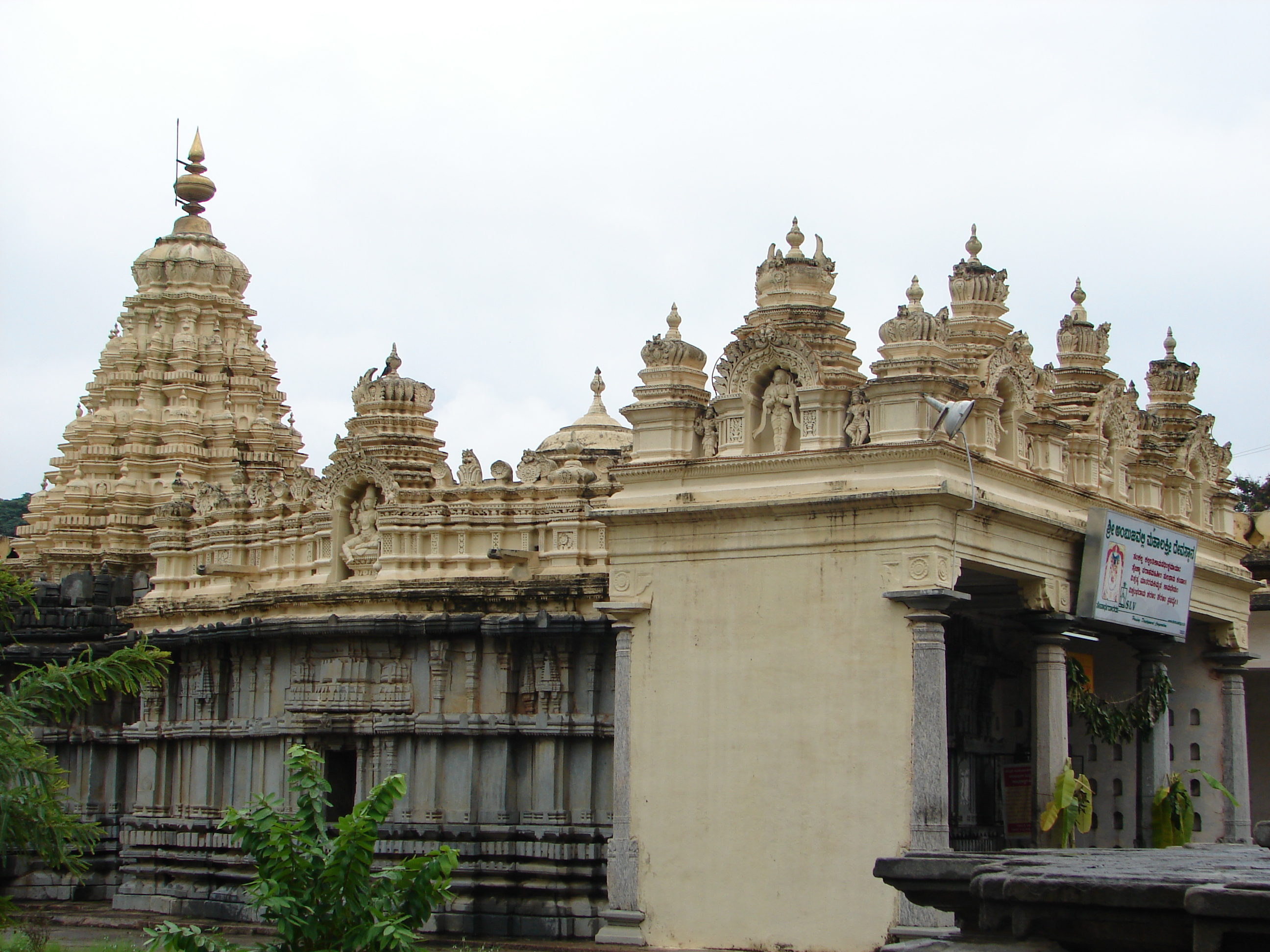 This photograph was taken by me at the Mahalakshmi temple, Mysore Palace grounds, Mysore, Mysore district, Karnataka state, India.